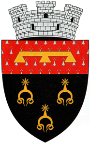 CoA of Durlești